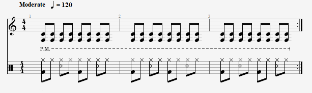 example of a riff of traditional heavy metal